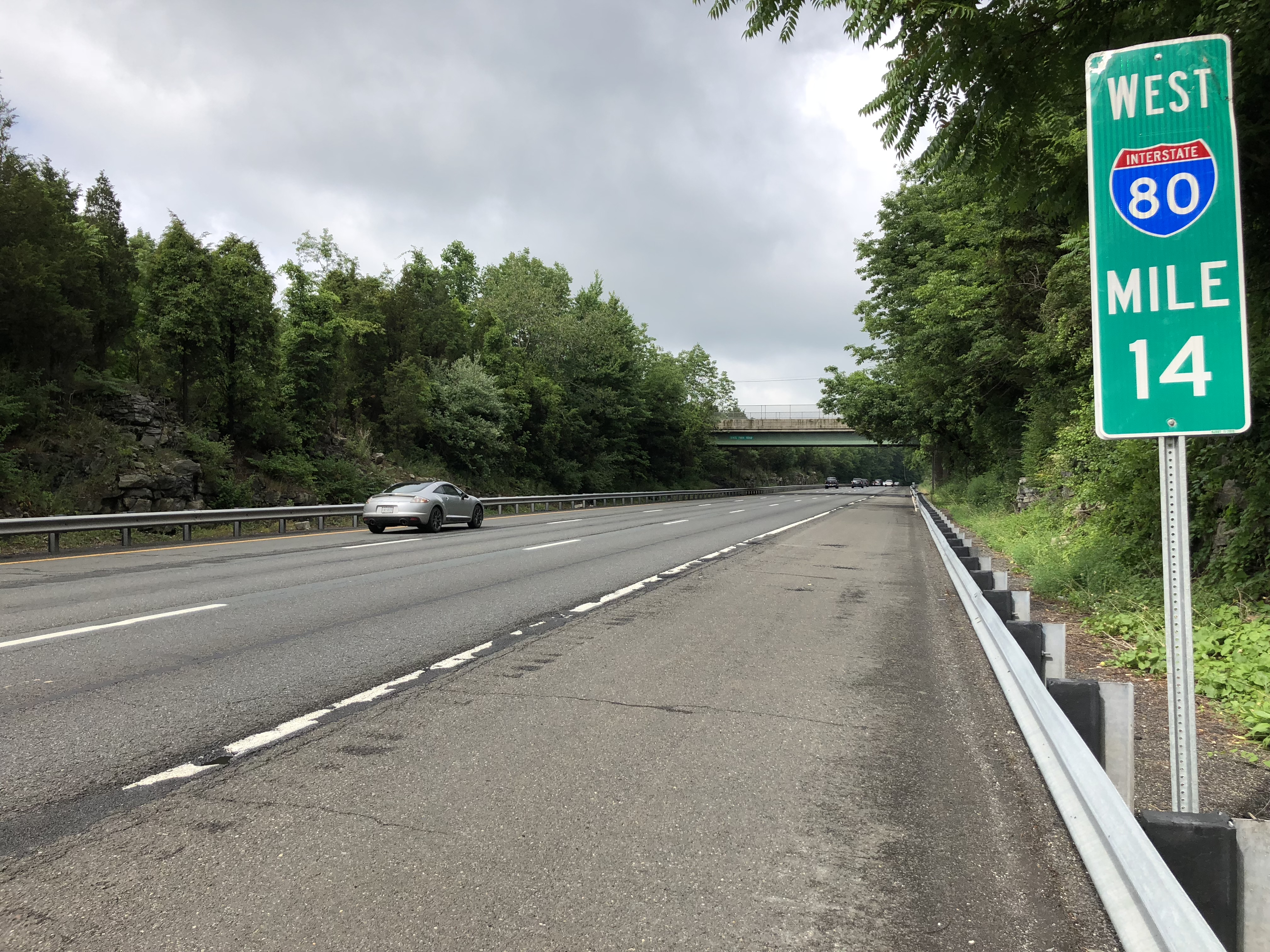 View west along Interstate 80 between Exit 19 and Exit 12 in Frelinghuysen Township, Warren County, New Jersey